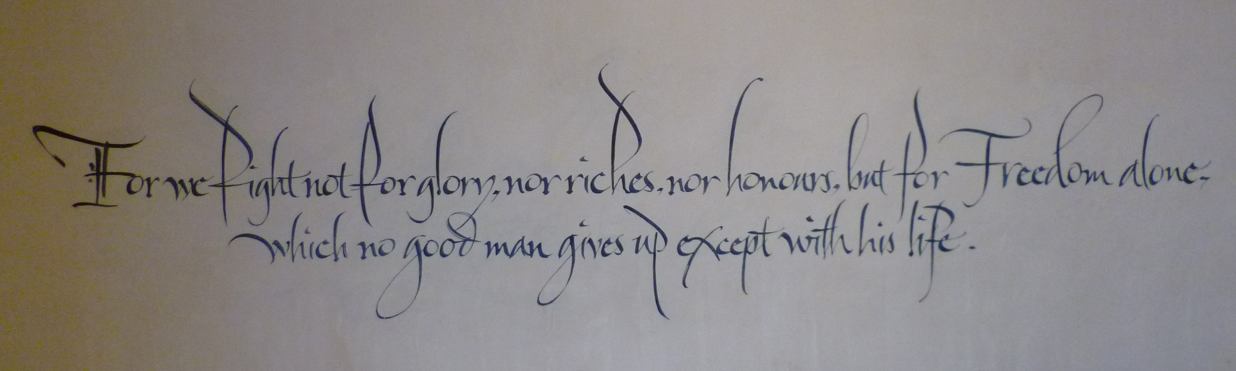 Declaration of Arbroath passage, translated from the Latin original, on a wall of the National Museum of Scotland: "For we fight not for glory, nor riches, nor honours, but for Freedom alone, which no good man gives up except with his life."